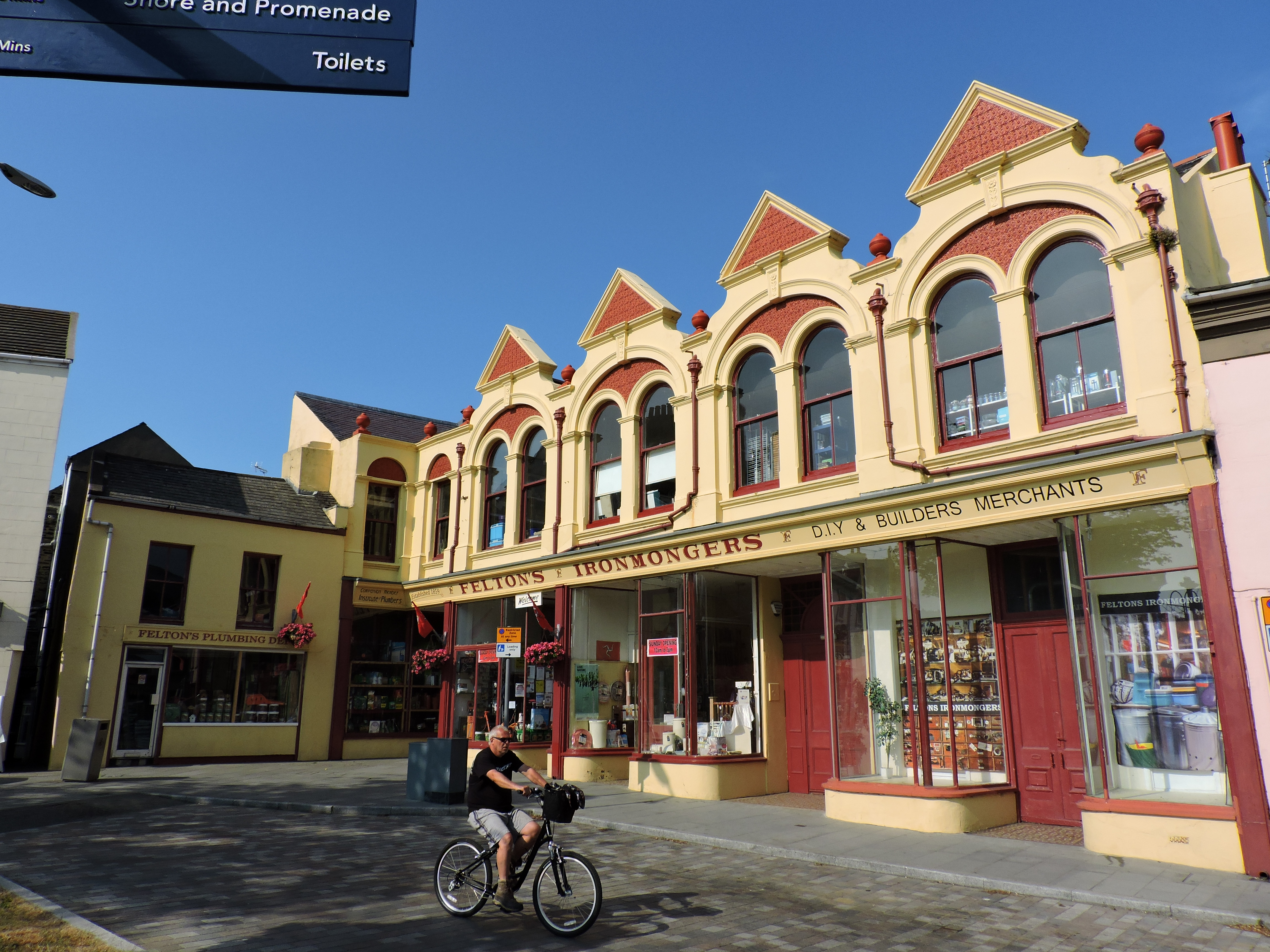 Felton's Ironmongers, at the centre of Ramsey, Isle of Man. Taken in the evening of 8th June 2016.